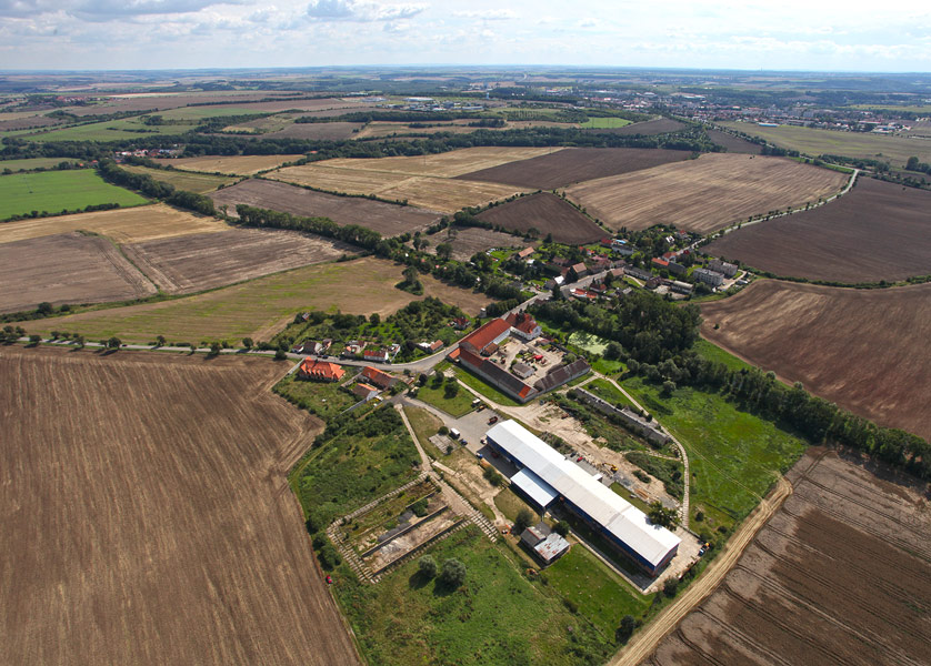 village Trpoměchy